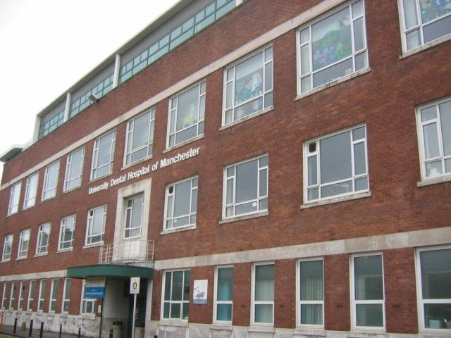 University Dental Hospital of Manchester. Not one of the most stunning buildings on the Manchester Campus, but home of the leading dental school in the UK.